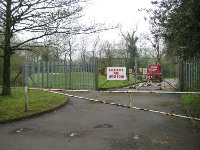 Buncefield: Emergency fire water pond (1) Buncefield Oil Depot has several of these ponds scattered around the site. This one is on Buncefield Lane. Just how effective these ponds were in helping to deal with the disastrous explosion of 11 December 2005 is not known by an ordinary layman. Just over the boundary to the right is the site of the original Buncefield farm from which the oil depot got its name.